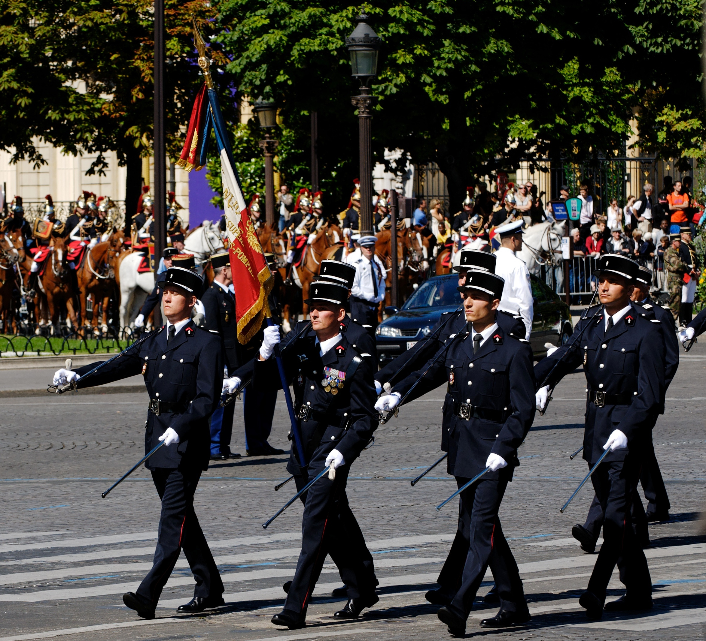 Colour guard of the French Firefighting Academy, Bastille Day 2008 military parade on the Champs-Élysées, Paris.